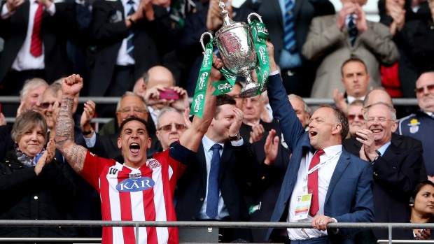 Sholing FC 2014 FA Vase Winners - Byron Mason & Dave Diaper lift the FA Vase